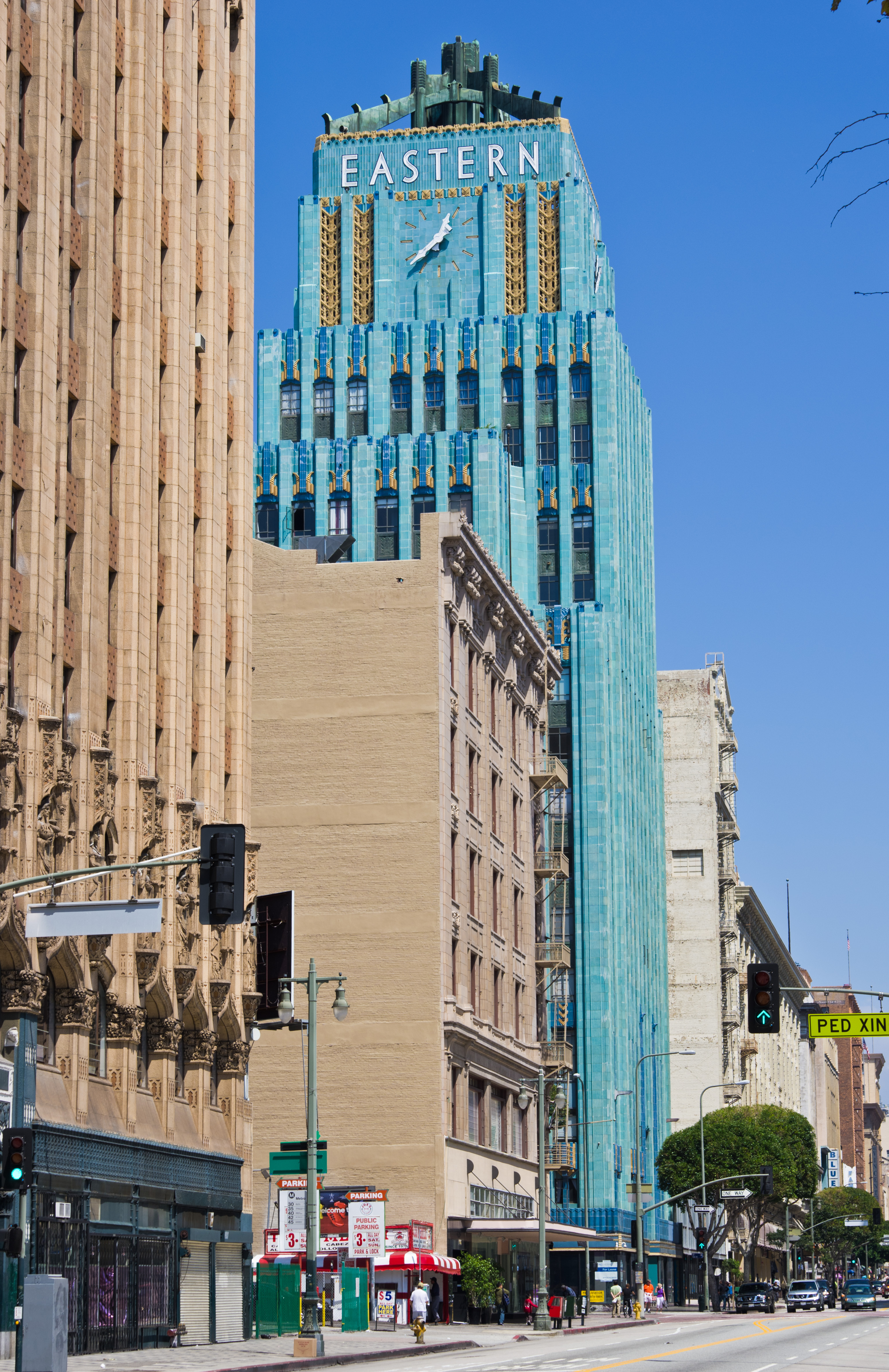 Eastern Columbia Building